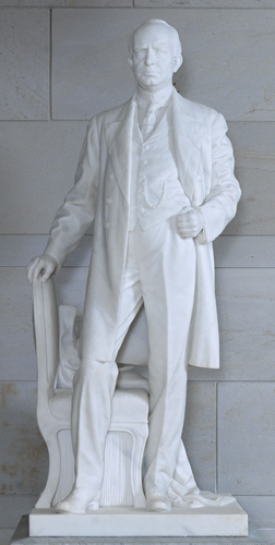 James Paul Clarke Given by Arkansas to the National Statuary Hall Collection.